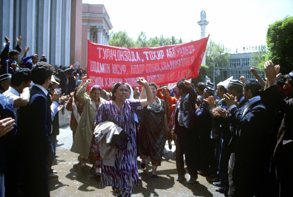 “Rally on Ozodi square”. The proclamation of independence in Tajikistan was followed by an entho-religious armed conflict for power in the country.